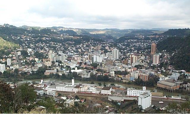 Partial view of the city